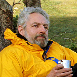 Portrait of Spencer Weart, camping in the Weminuche Wilderness area, CO